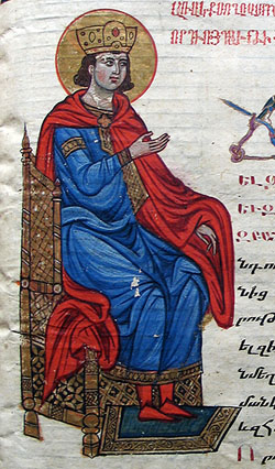 King Solomon. Bible, Jerusalem, Armenian Patriarchate Library, Ms. 1925, 747a, Erznka